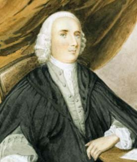 Framed colour print of Matthew Stewart (1717-1785), seated at a table, holding a quill. Below the print on the matting it is written, 'MATTHEW STEWART, D.D, F.R.S. / PROFESSOR OF MATHEMATICS, EDINBURGH UNIVERSITY 1747-1775'. From de Art Collection of the University of Edinburgh